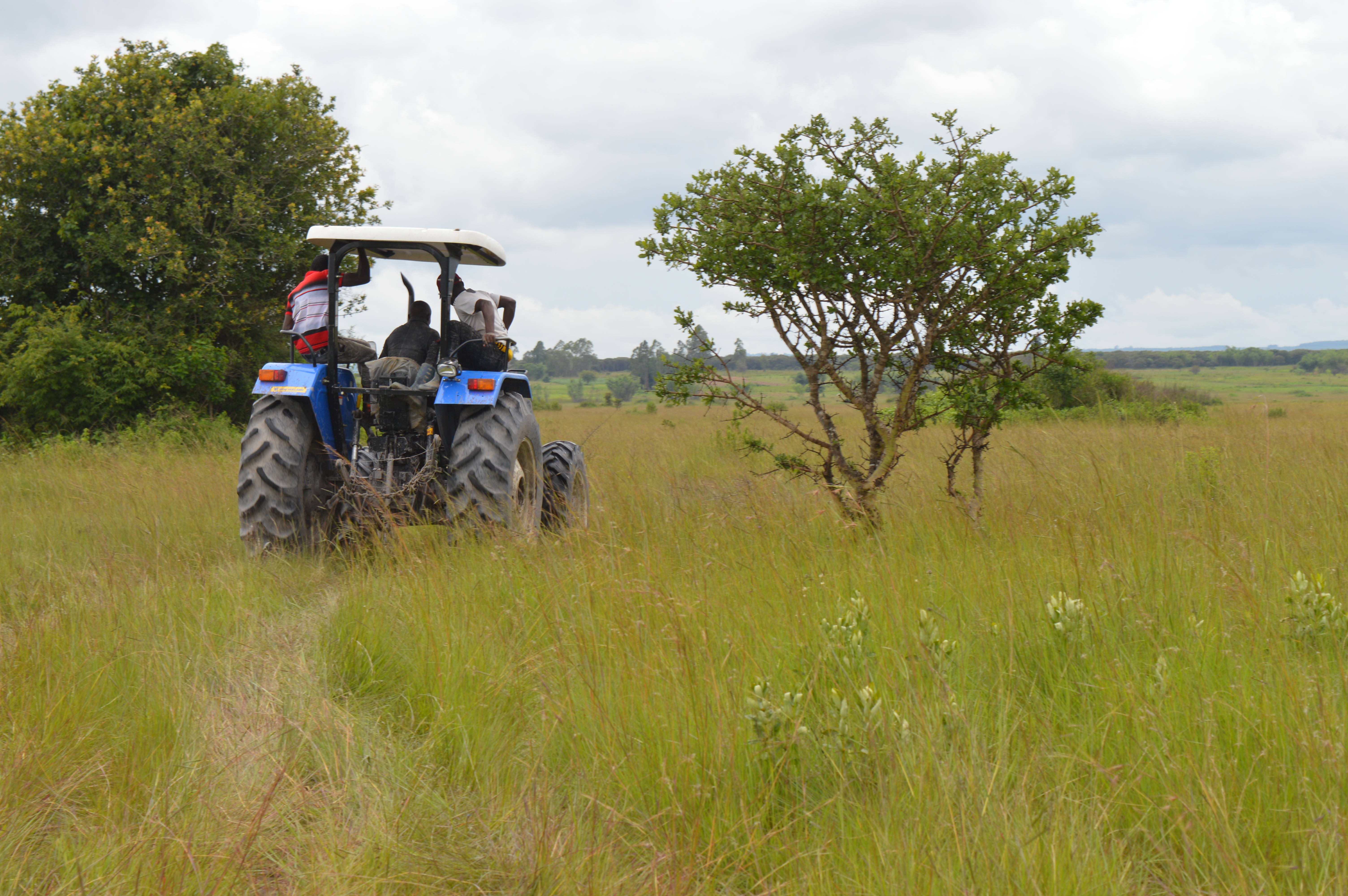 Tractors are used to cultivate but also means of transport with the heavy-duty vehicle in any situation of the area. This is an image with the theme "Africa on the Move or Transport" from: Tanzania